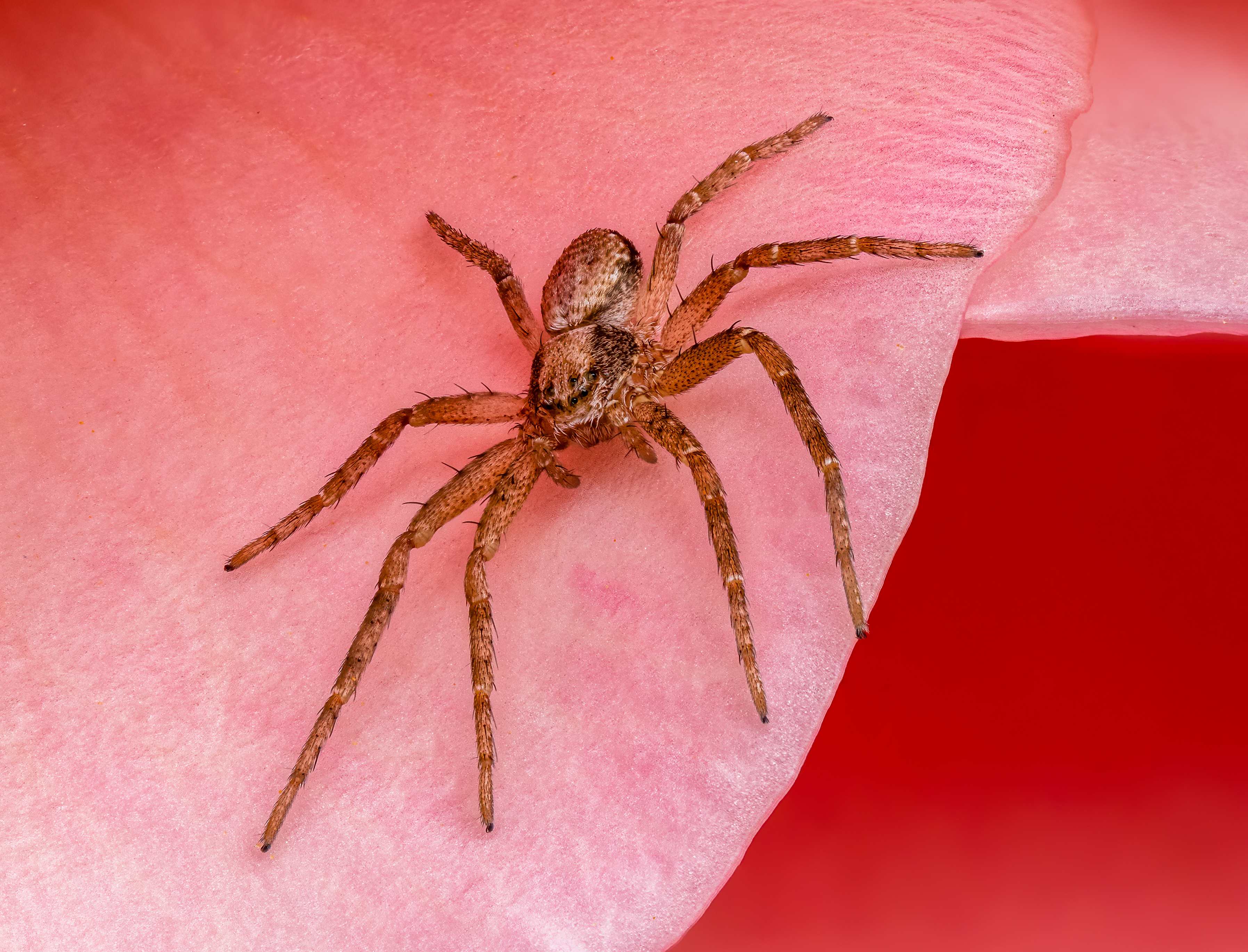 Wolf Spider (Pardosa hortensis) between the leaves of a rose blossom in a garden in Bamberg. Focus stack of 19 images.